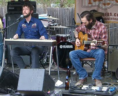 Ben Bridwell and Mat Brooke playing with Band of Horses at the 2006 SXSW festival.